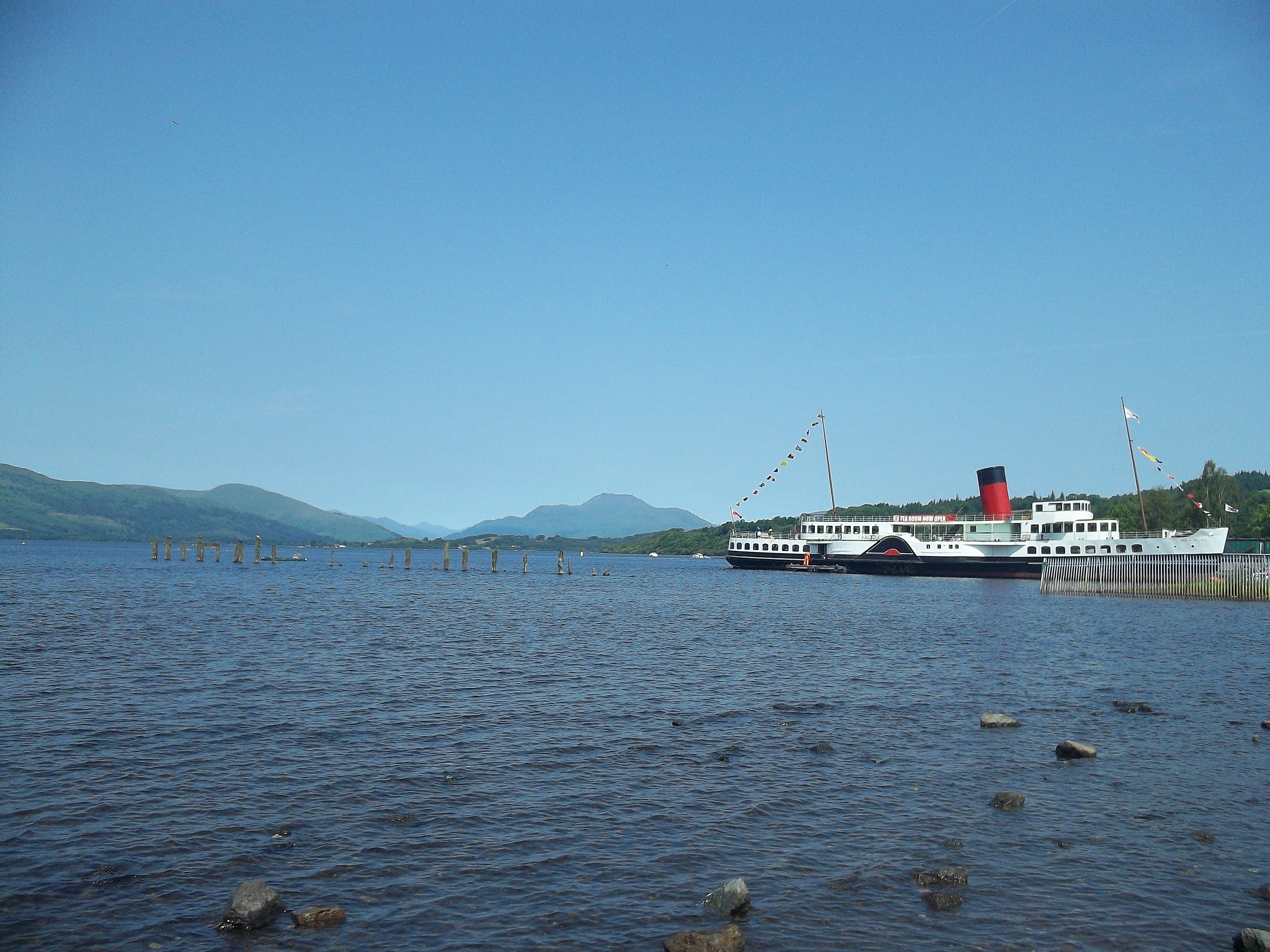 panorama of Loch Lomond